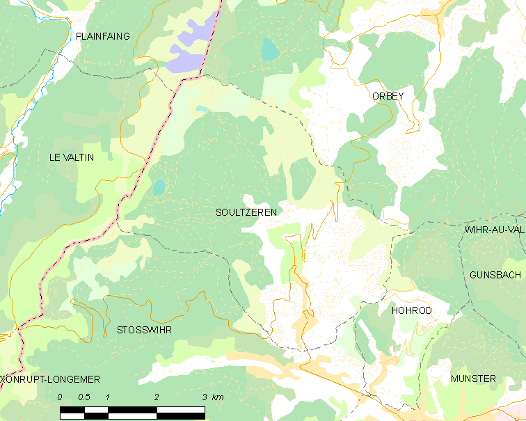 Map of French municipality